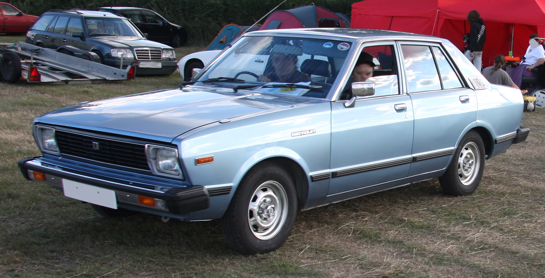 1981 Datsun Violet 140J (1397cc) at the Retro Rides Gathering, Haynes Museum, August 2010